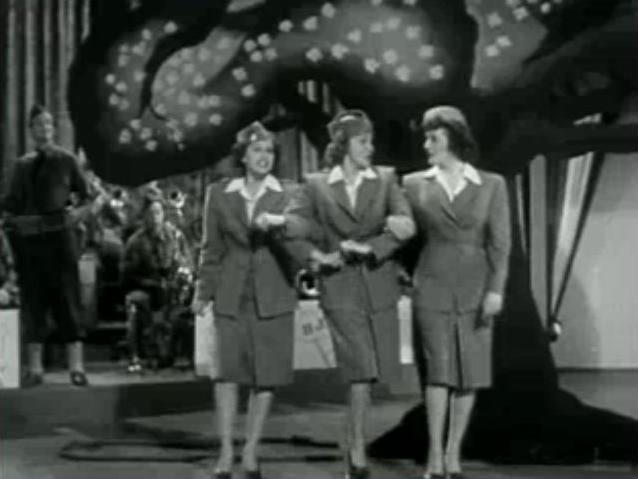 The Andrews Sisters, accompanied by Harry James and his Music Makers, singing "Don't Sit Under the Apple Tree (With Anyone Else but Me)" in the 1942 film Private Buckaroo.